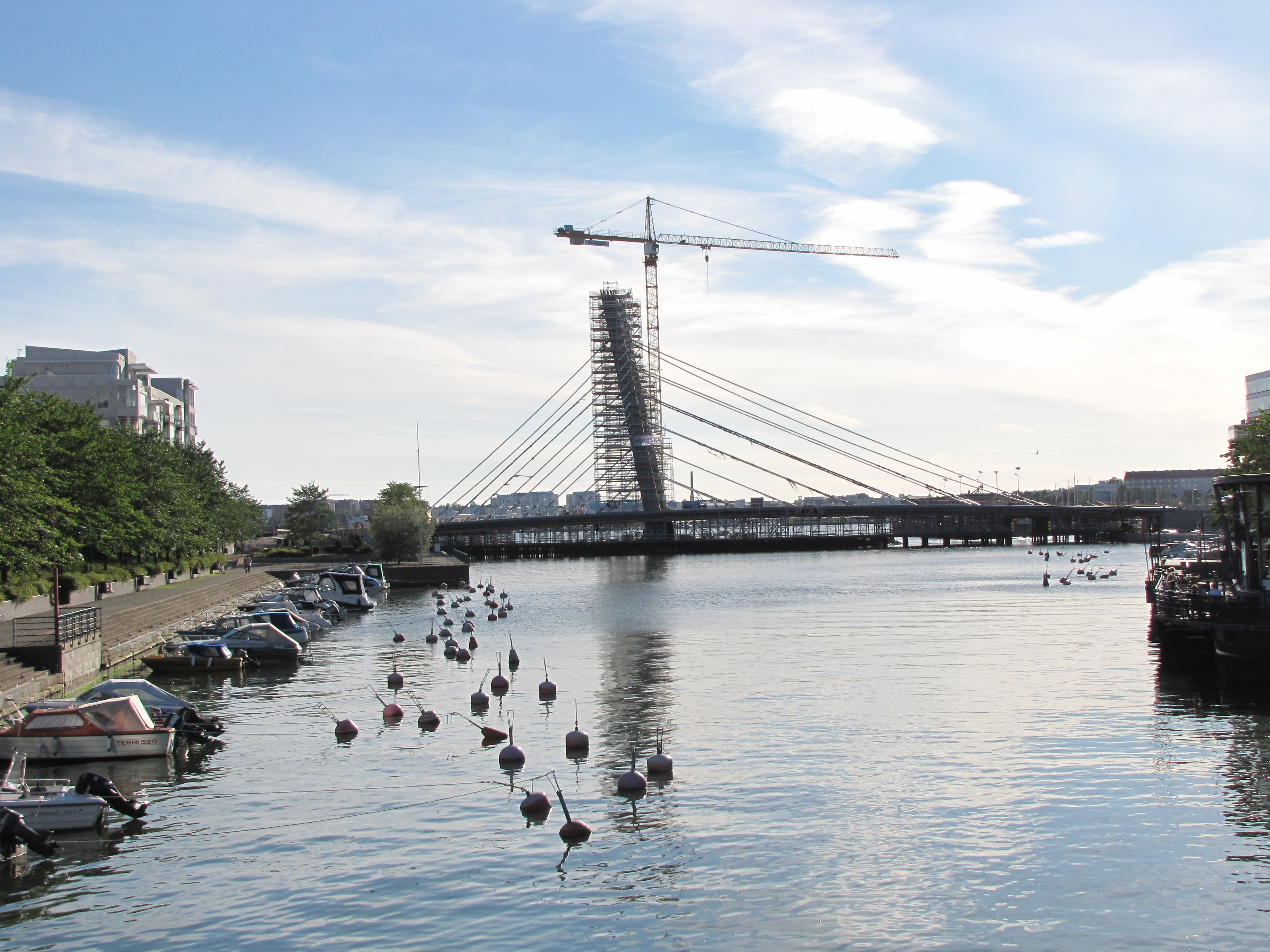 Crusell bridge under construction in 2010.